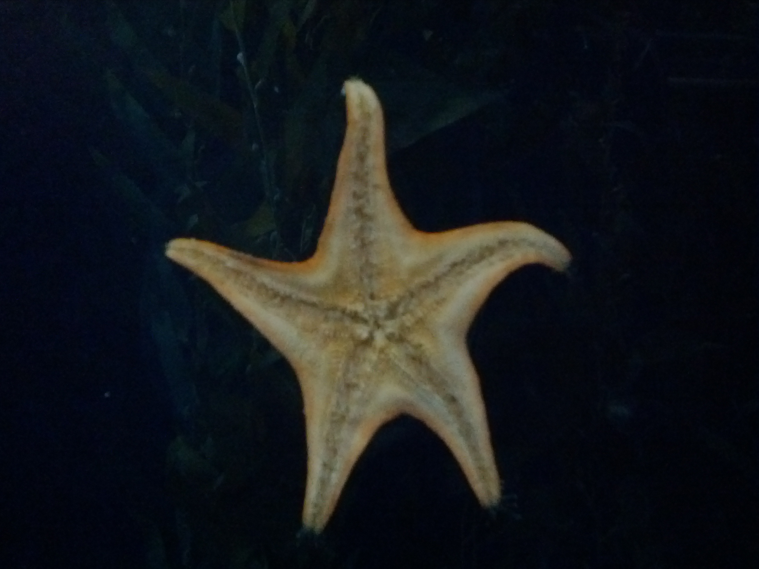 Star Fish, sticked to the glass wall of the aquarium